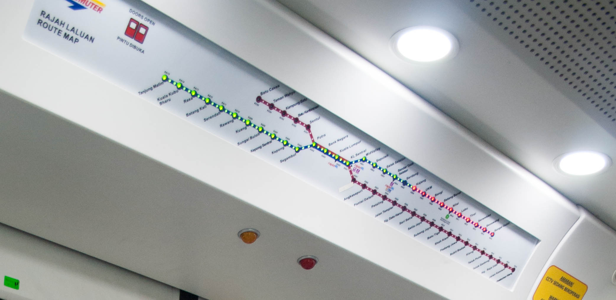 Passenger Route Information System which is currently in use with KTM Class 92 rolling stock.